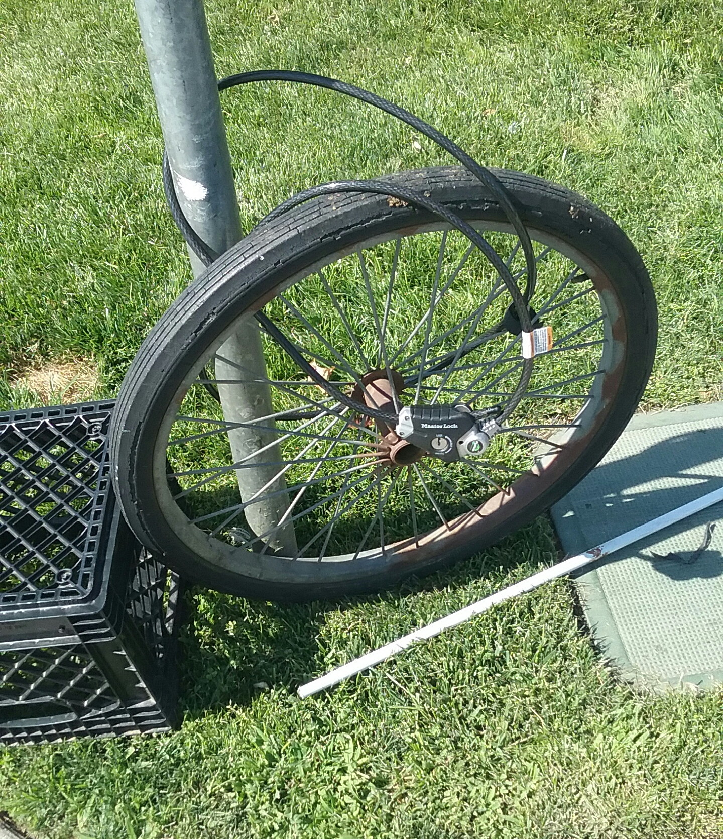 A worn bicycle wheel locked on a pole of a stop sign at a shopping center parking lot in Fresno, California. The stolen bicycle was belonged to a homeless man.